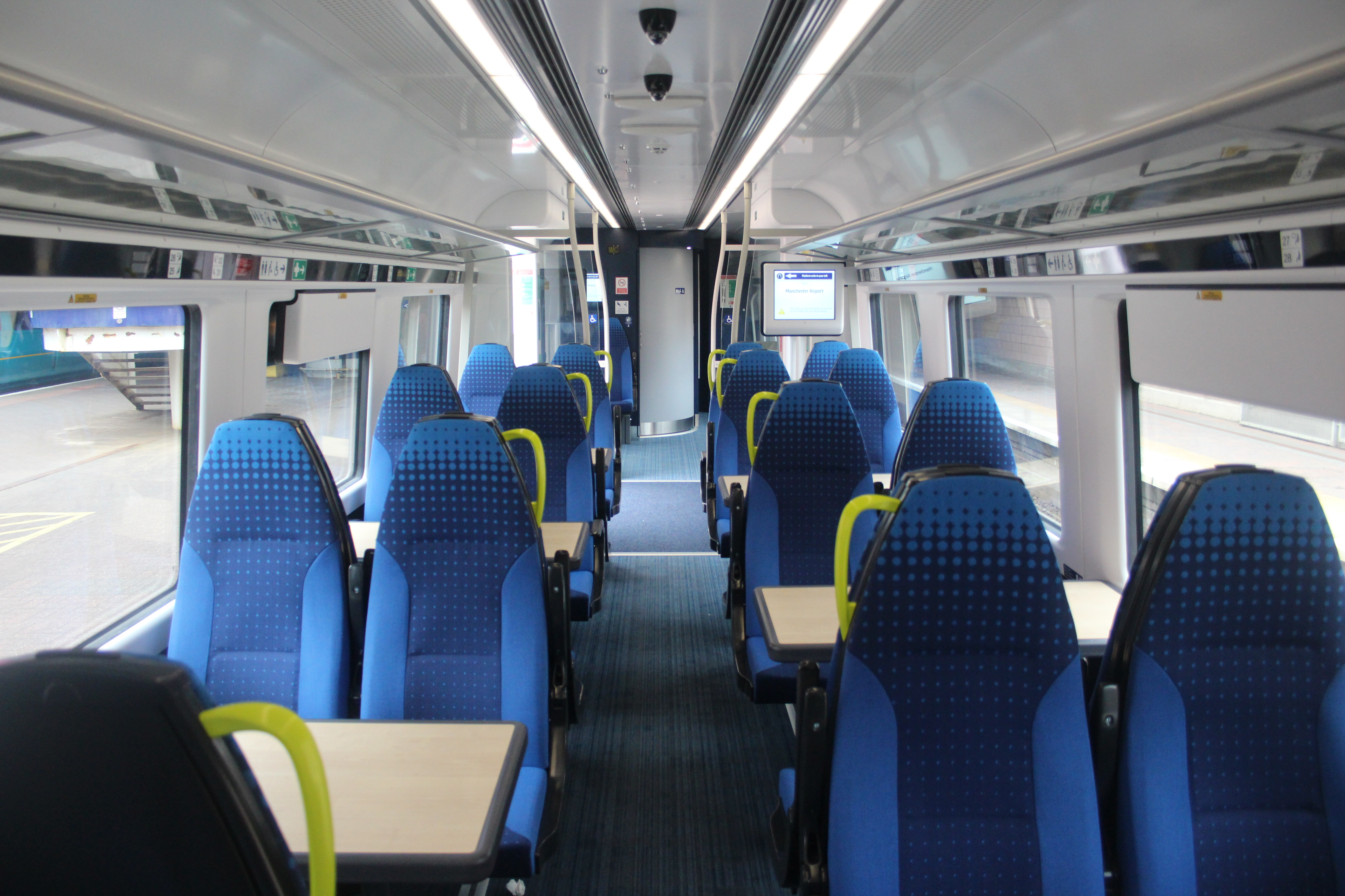 The interior of a Class 195 DMU from CAF for Northern, taken on day one of service.